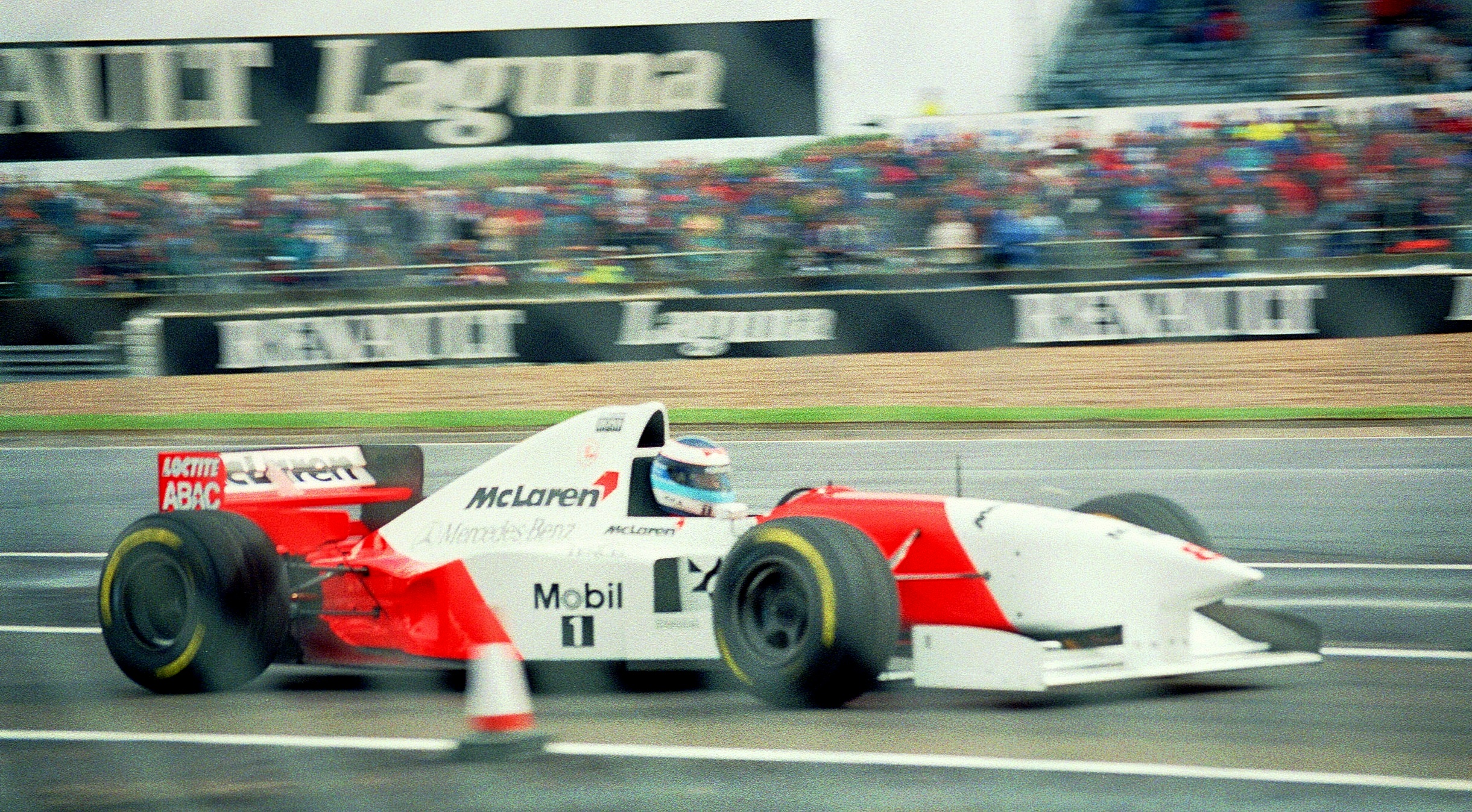 1995 British Grand Prix